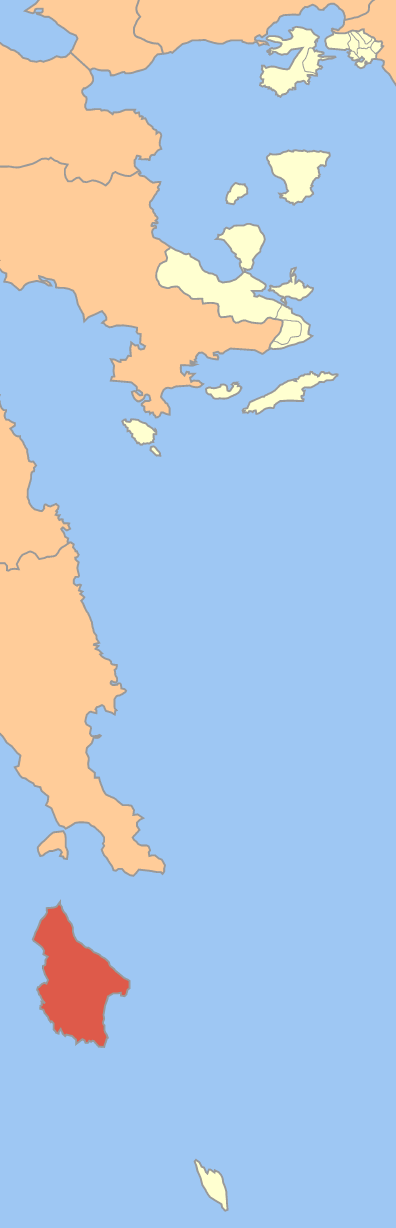 Locator map of Kythira municipality (Δήμος Κυθήρων) in Pireas Nomarchia (Νομαρχία Πειραιά) in Greece.